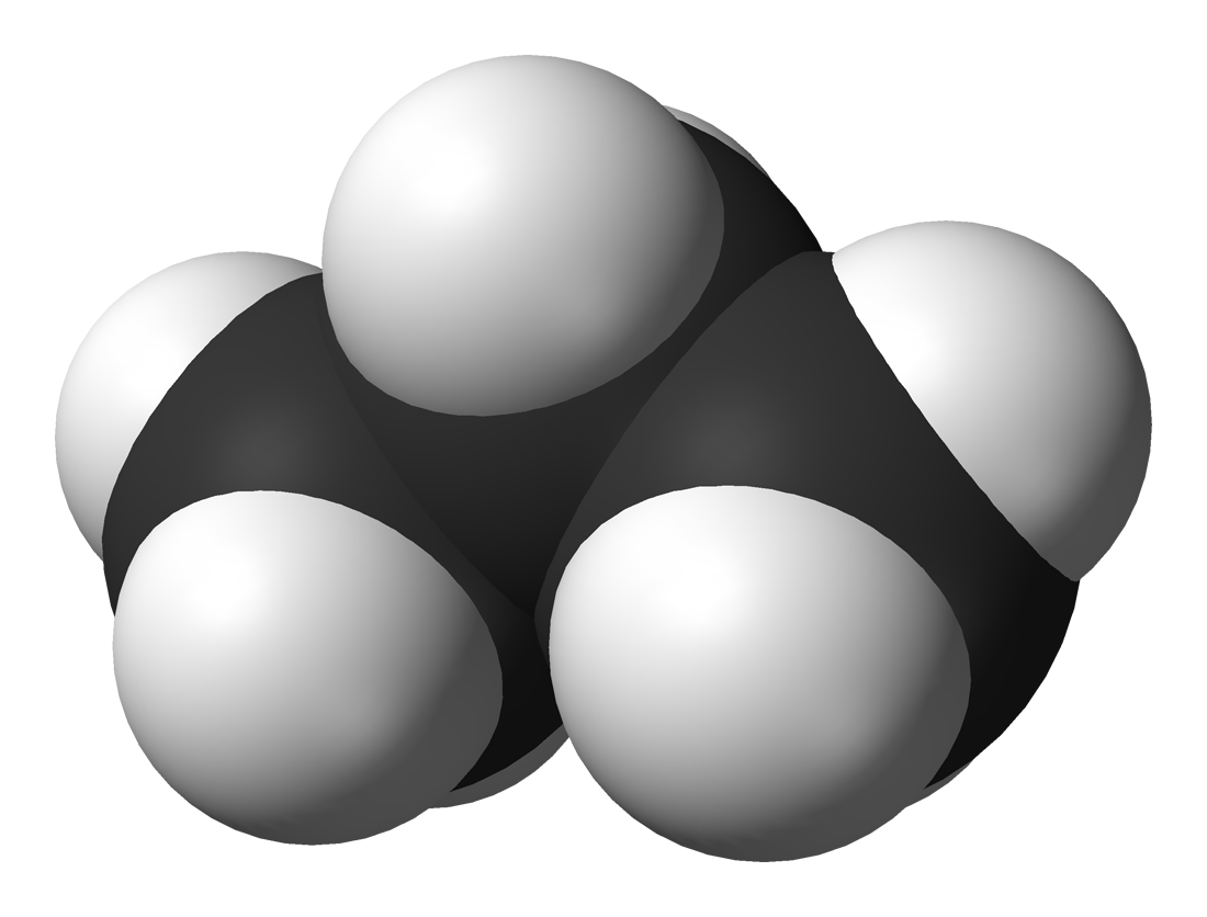 Space-filling model of the propane molecule, C3H8.